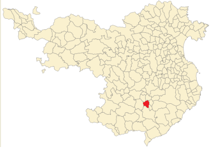 Ruidellots de la Sierra